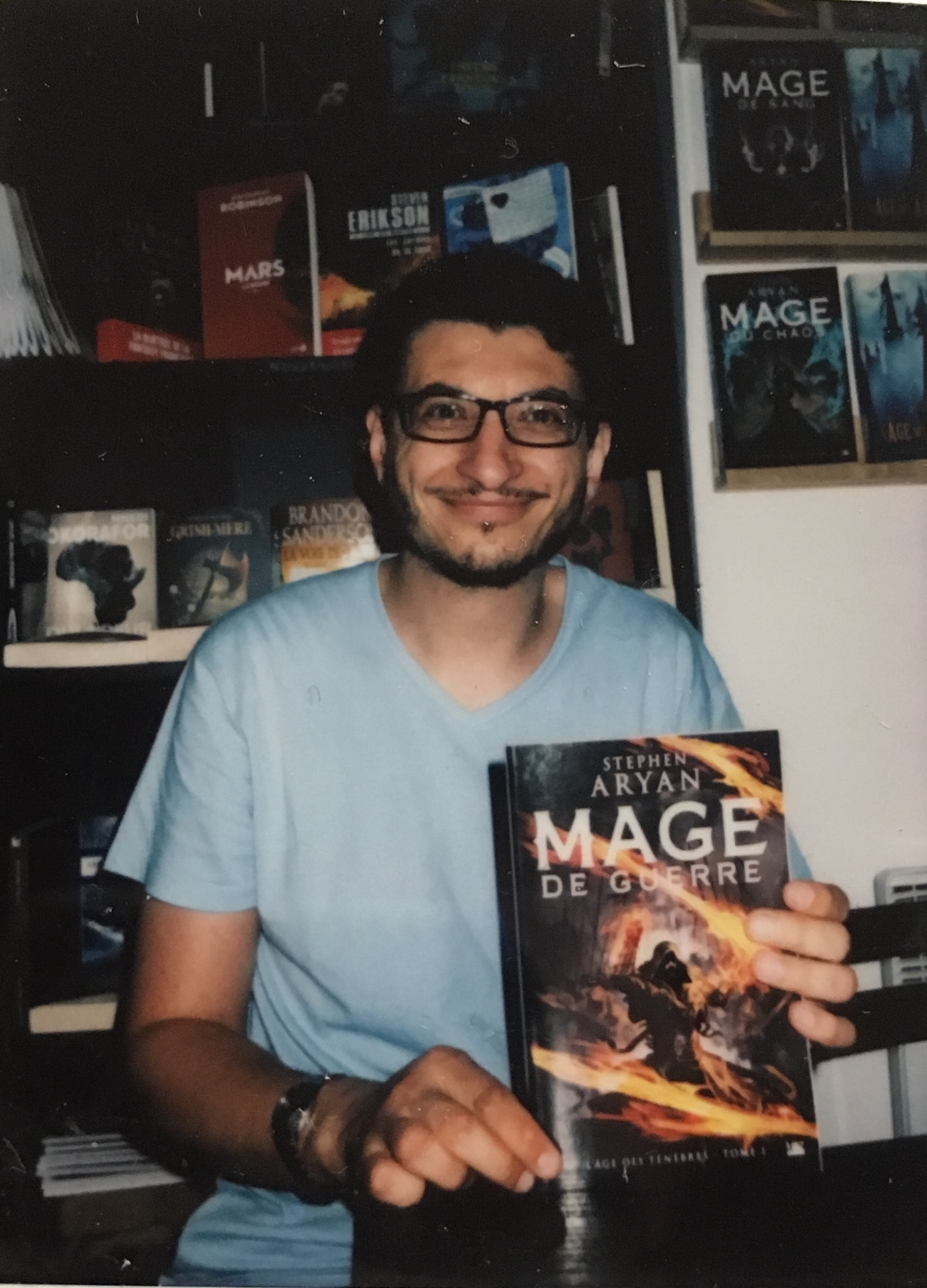 Picture of Stephen Aryan during a signing session at the bookshop La dimension fantastique in Paris in may 2018